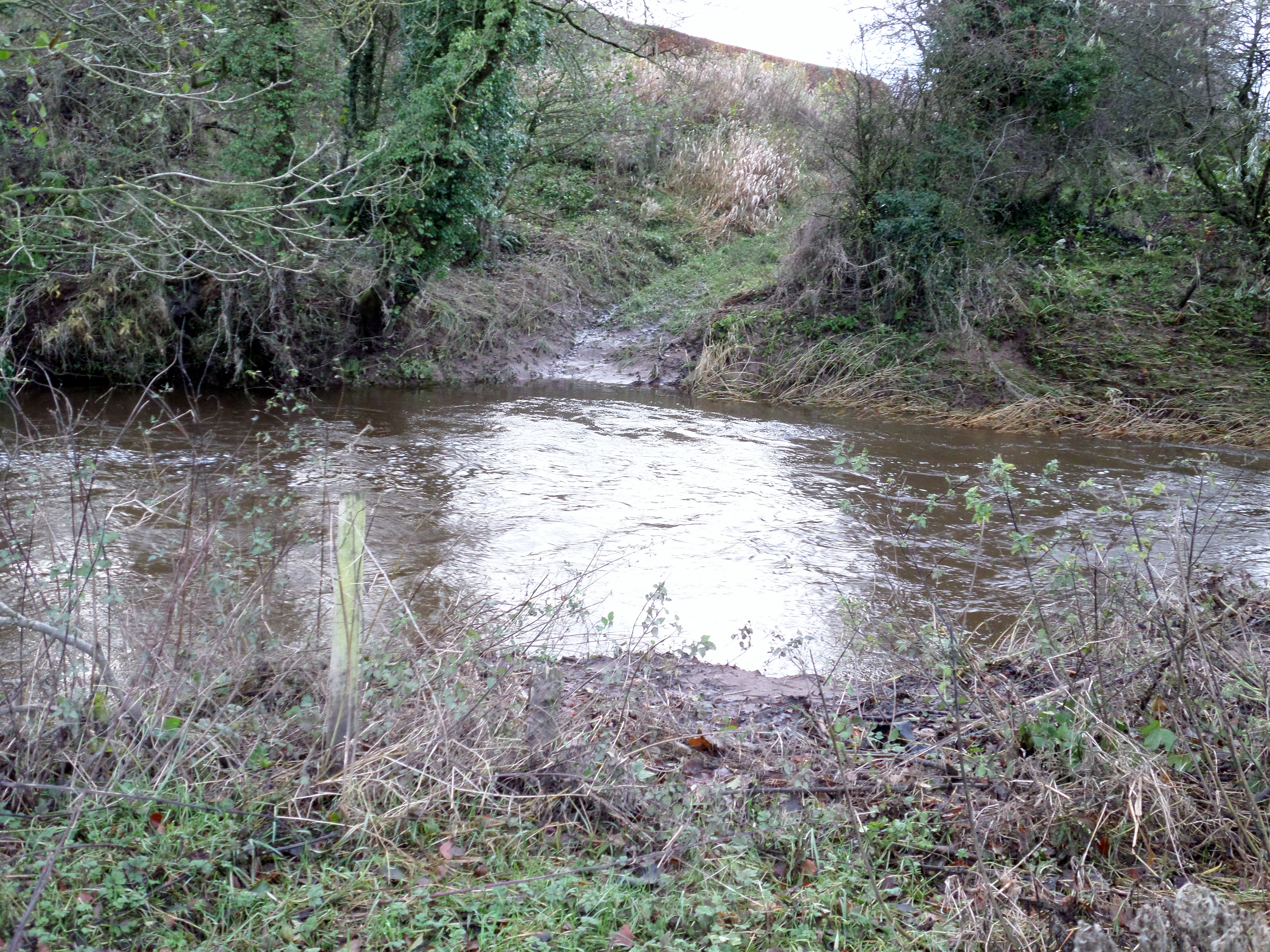 Hainiing Ford on the Cessnock Water, Haining Place, East Ayrshire, Scotland.